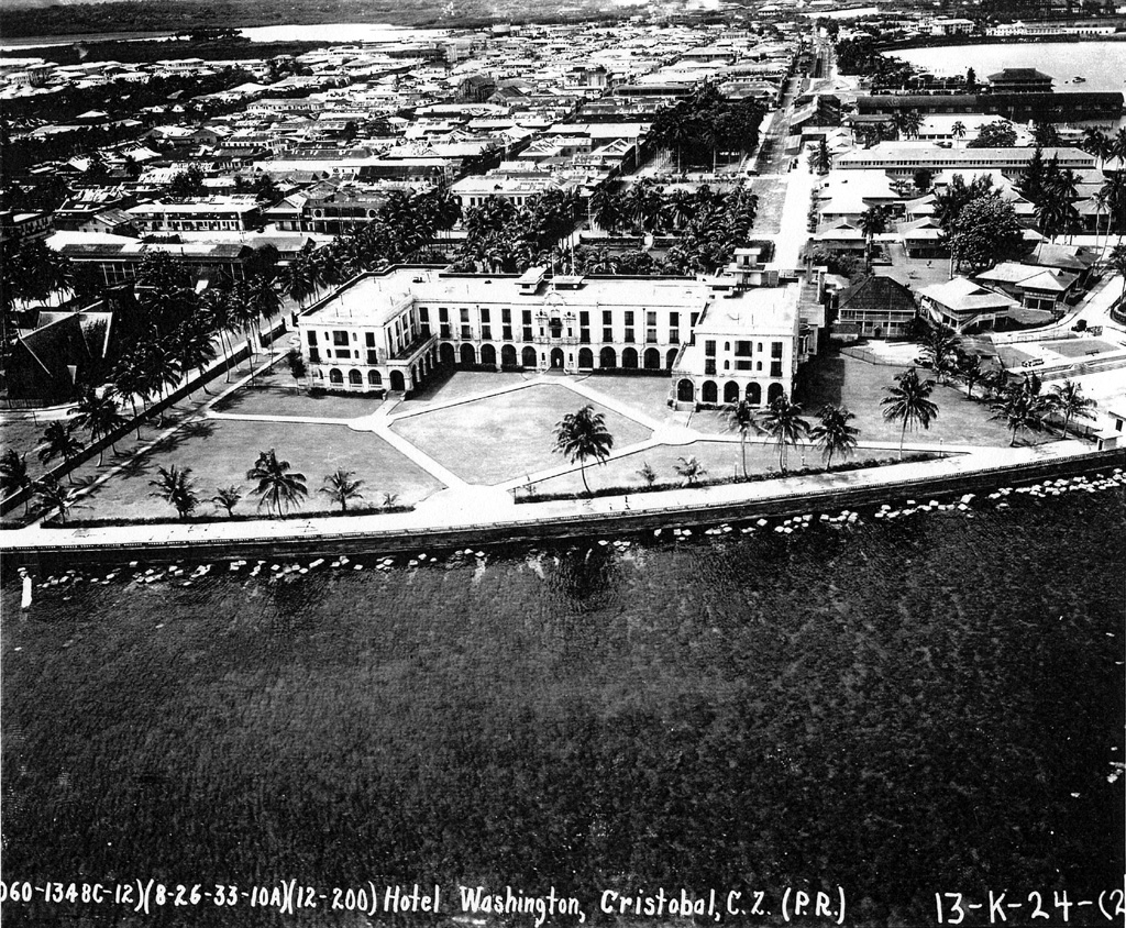 Aerial view of Cristobal's Hotel Washington from June 1938. In the background, the city of Colon and off to the distance, the port of Cristobal.